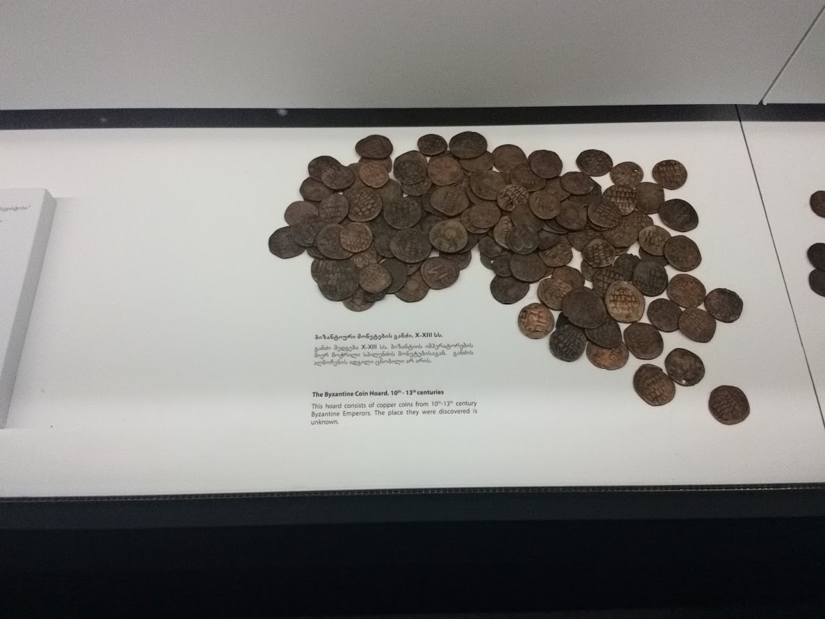 The Bizantine coin Hoard